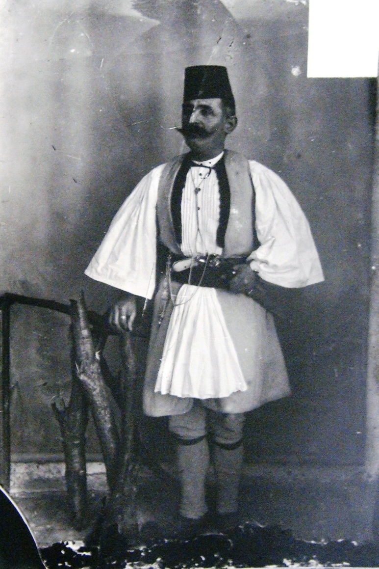 Apostоl Kushkona from Korca, who killed the Greek bishop. He was sentenced to death, but then get amnesty after the winning of the Young Turk revolution. Recorded in the studio of the brothers Manaki. Bitola 1908 This media file is produced by Wikipedian in Residence in Category:Wikipedian in Residence at DARM in 2016.